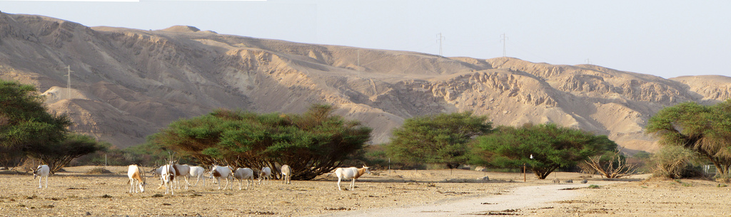 Yotveta Hai-Bar, Wildlife and Plants of Israel